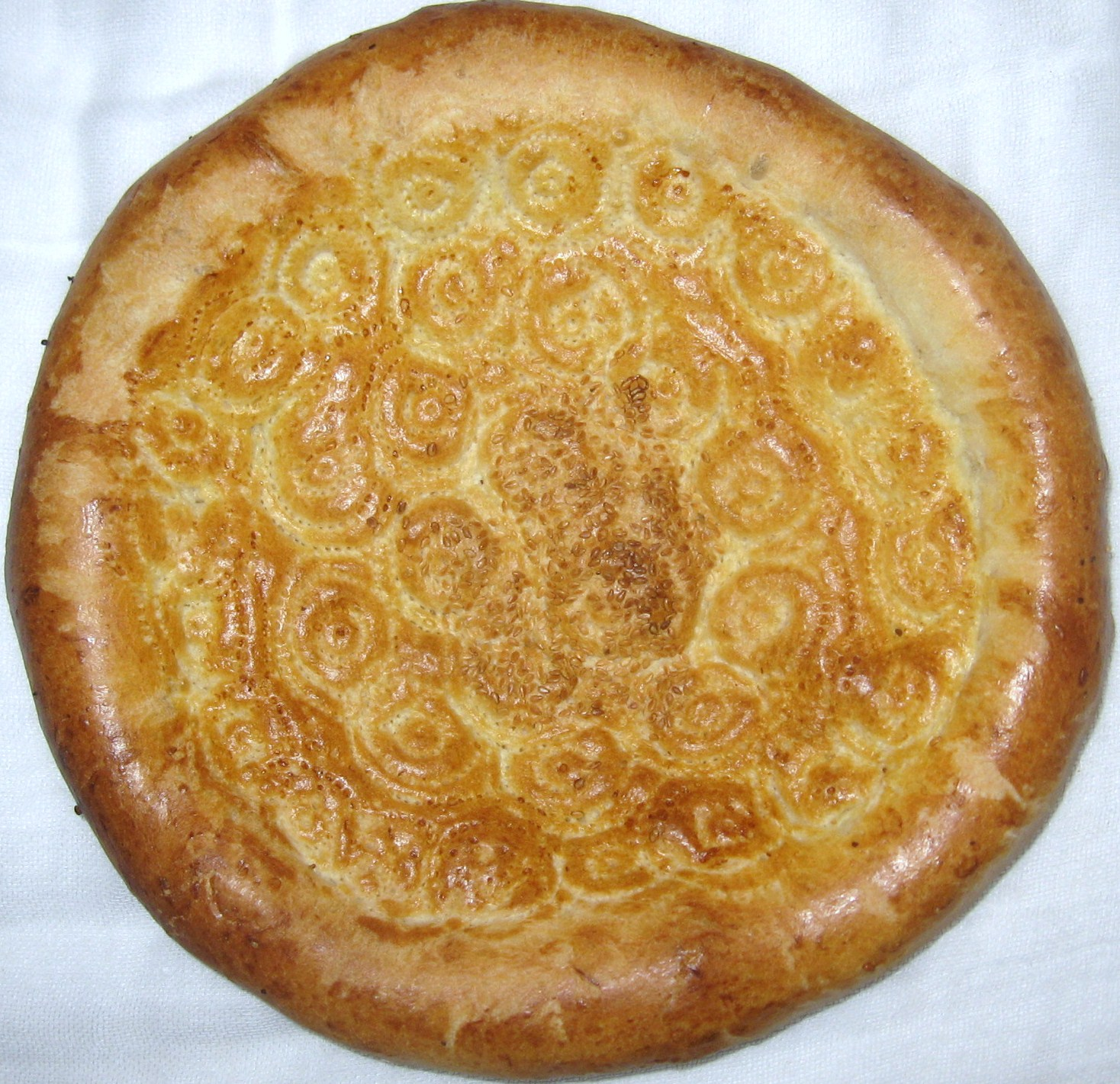 Pitir nan, flatbread baked in a tandoor. Common for Central Asia (Uyghur people, Kazakhstan, Kyrgyzstan, Tajikistan, Uzbekistan)